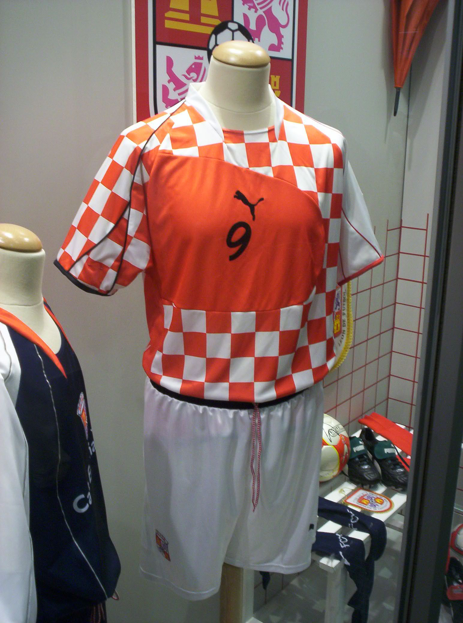 uniforme seleccion castilla y leon